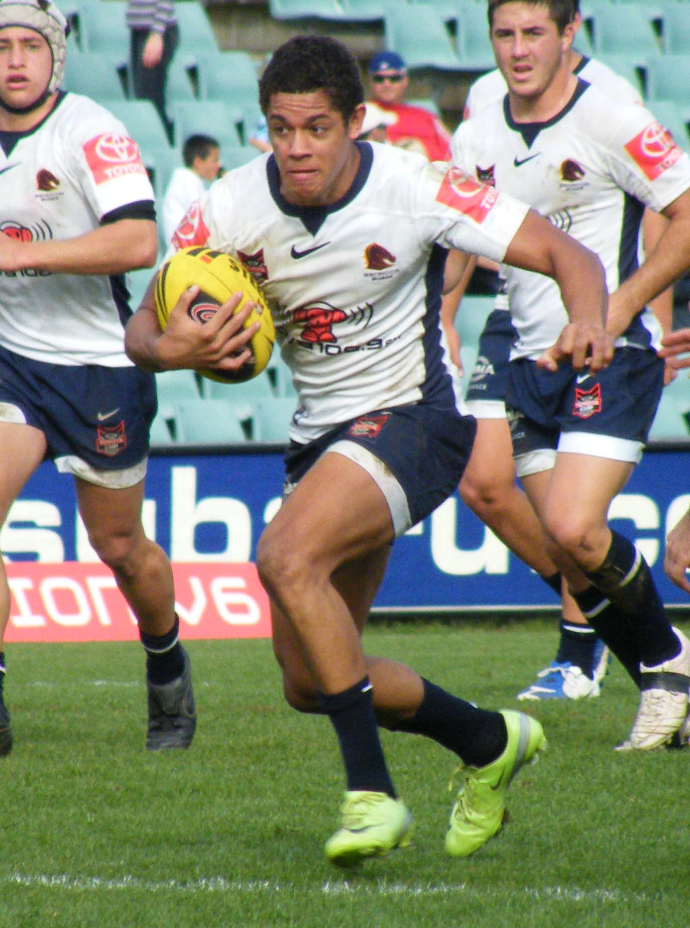 Dane Gagai playing for the Broncos.